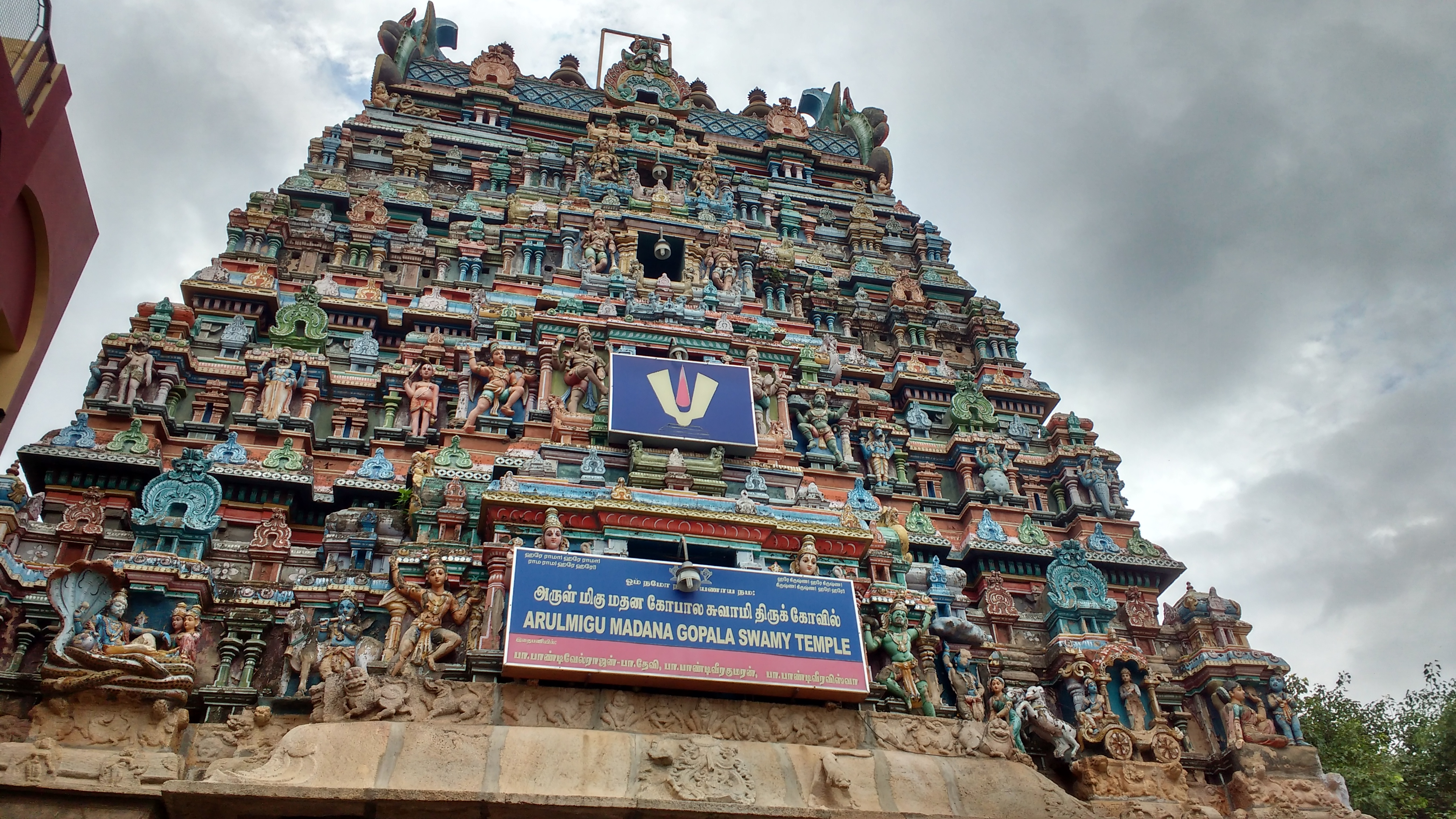 Madanagopala Swamy Temple, Westmasi St., Madurai